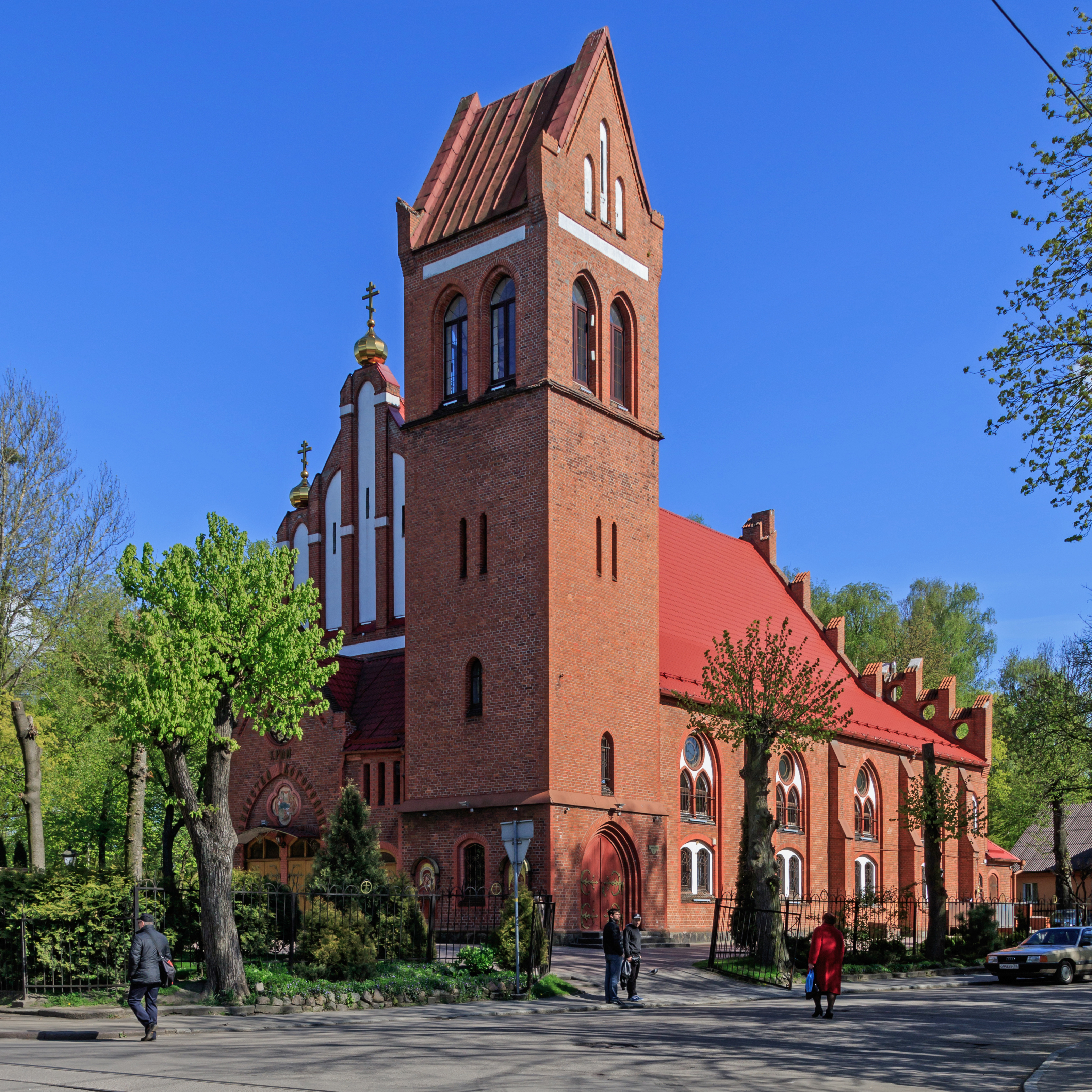 Church of the Nativity of Our Lady, originally Ponarth Church, in Kaliningrad formerly Königsberg, Kaliningrad Oblast (Russia).